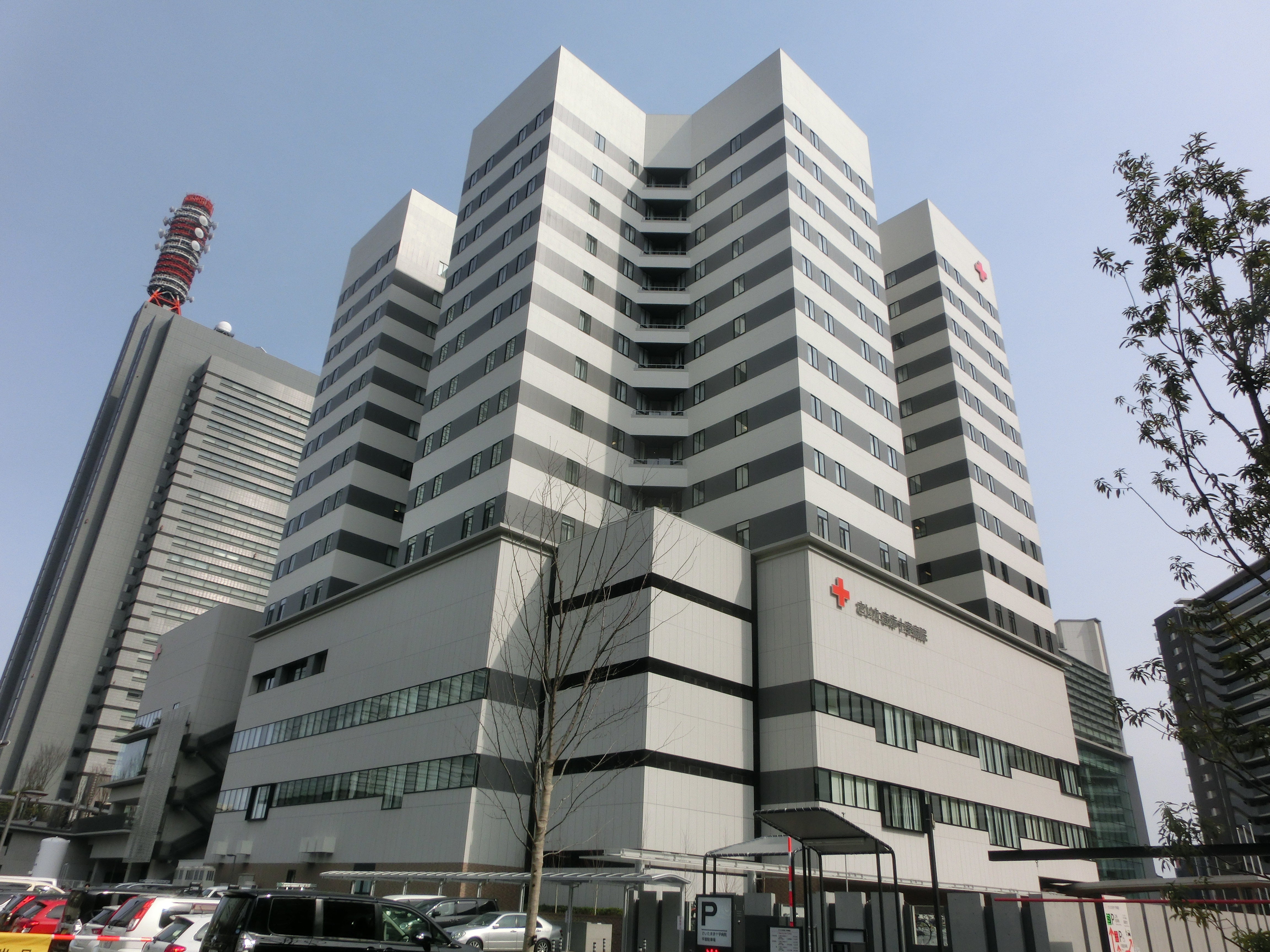 Japanese Red Cross Saitama Hospital